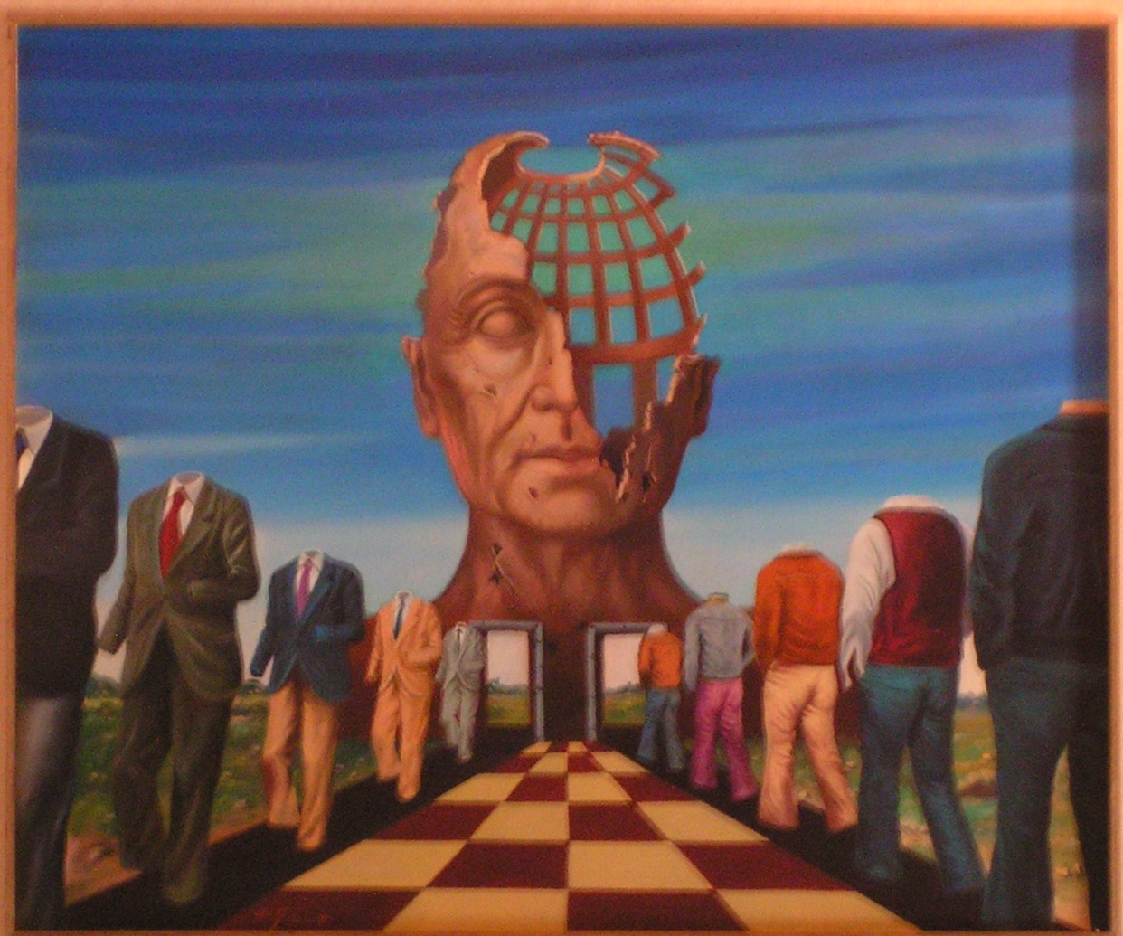 Work of the Italian painter William Girometti, title: "Restoration as therapy", 1975, oil on canvas, cm. 50x60 - owned by his daughter.